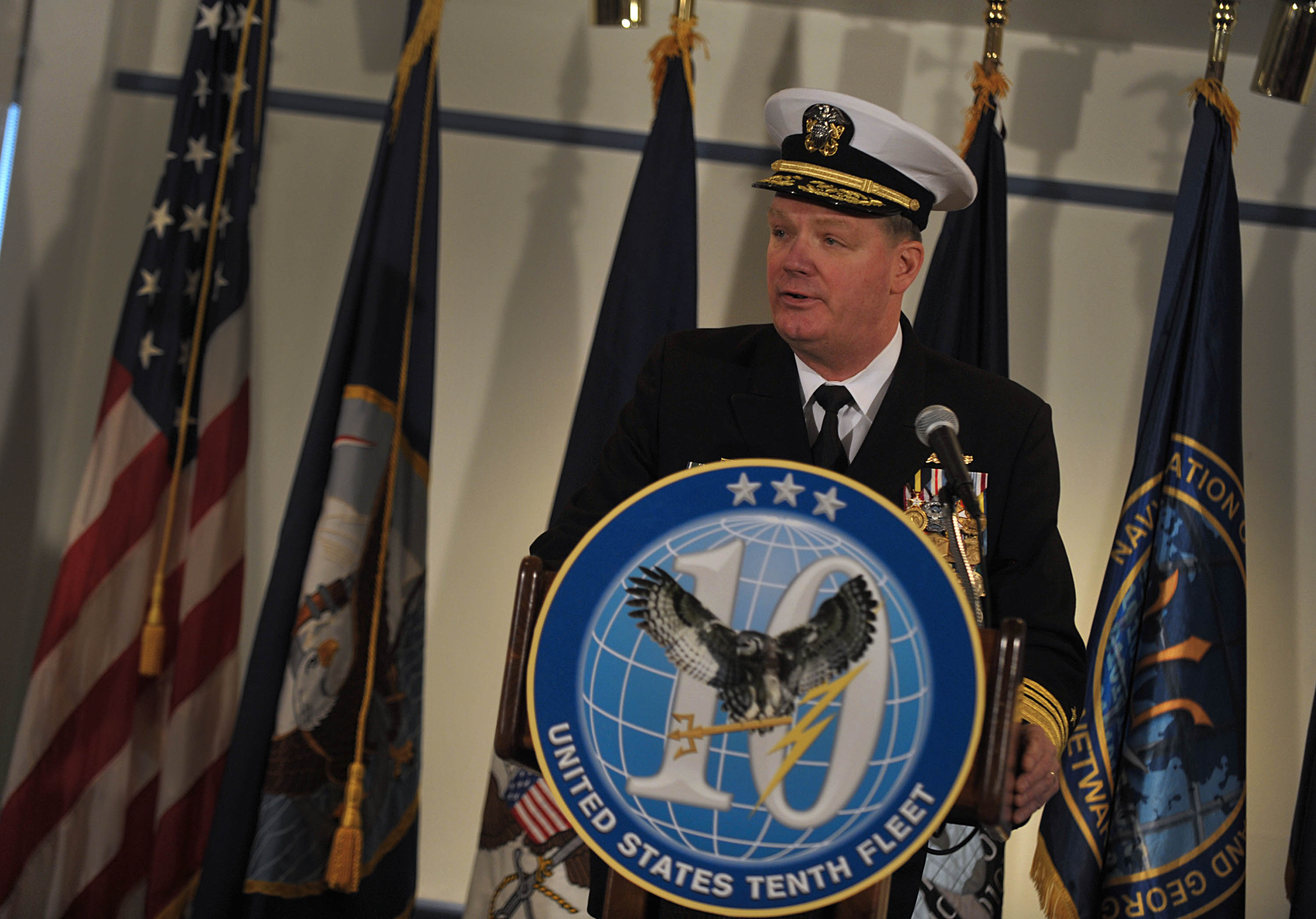 FT. MEADE, Md. (Jan. 29, 2010) Vice Adm. Barry McCullough, commander, U.S. Fleet Cyber Command and Commander, U.S. 10 Fleet, speaks at a commissioning ceremony for U.S. Fleet Cyber Command at Ft. George G. Meade, Md. (U.S. Navy photo by Mass Communication Specialist 1st Class Tiffini Jones Vanderwyst/Released)